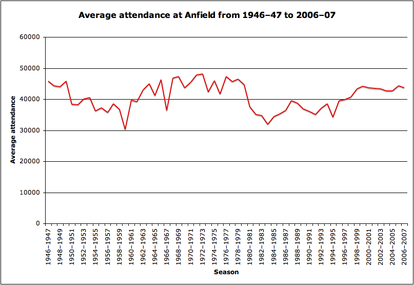 Graph of average attendance at Anfield from 1946–47 season to 2006–07 season